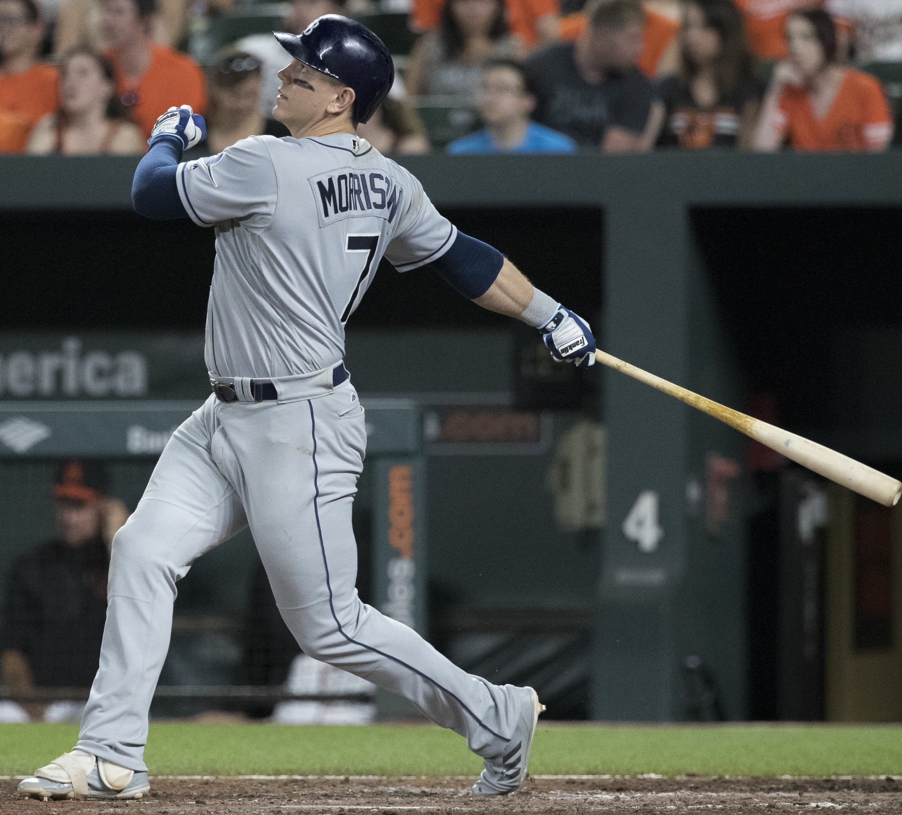 Rays at Orioles 6/30/17